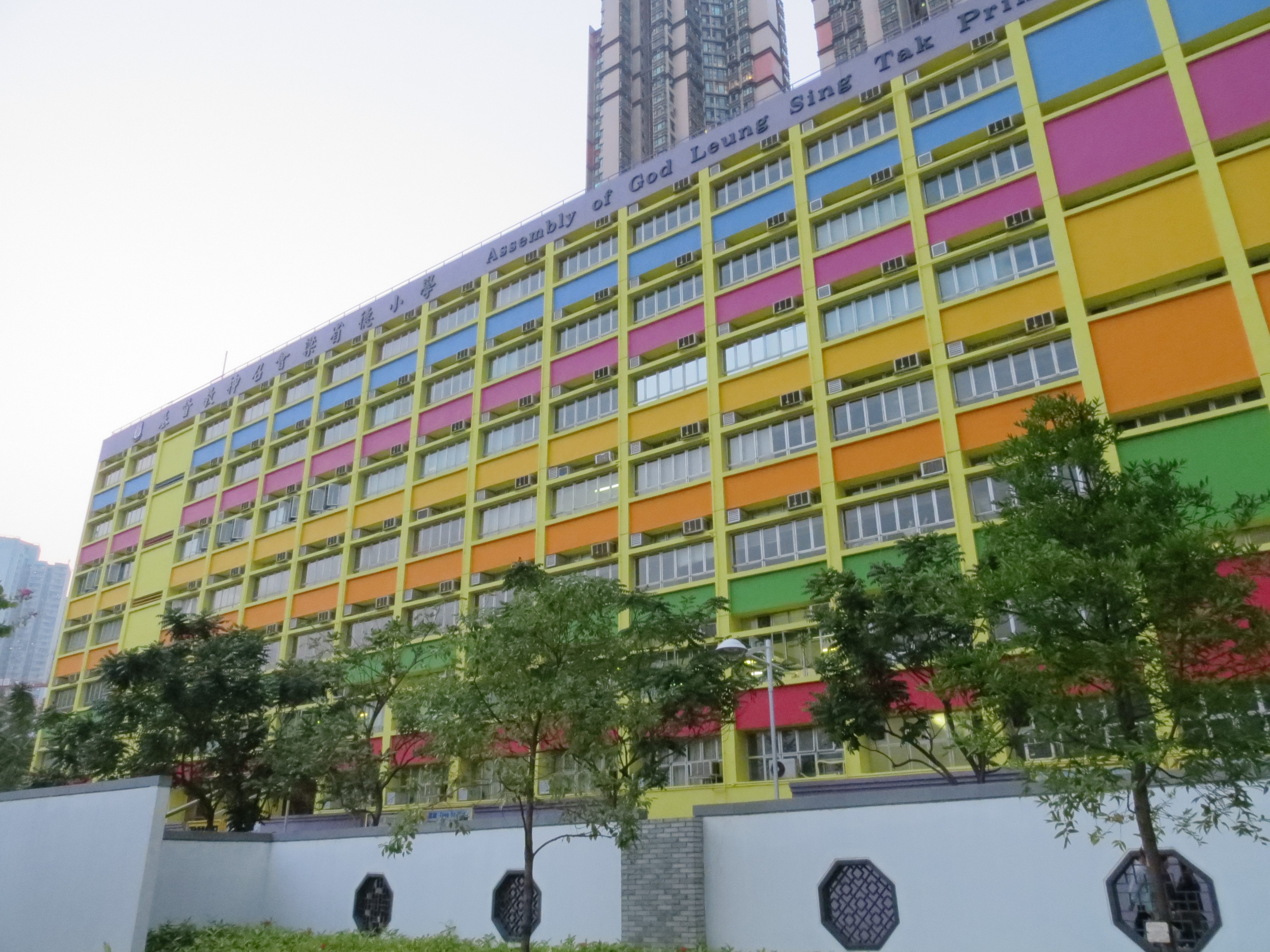 Assembly of God Leung Sing Tak Primary School, Tseung Kwan O, Hong Kong.